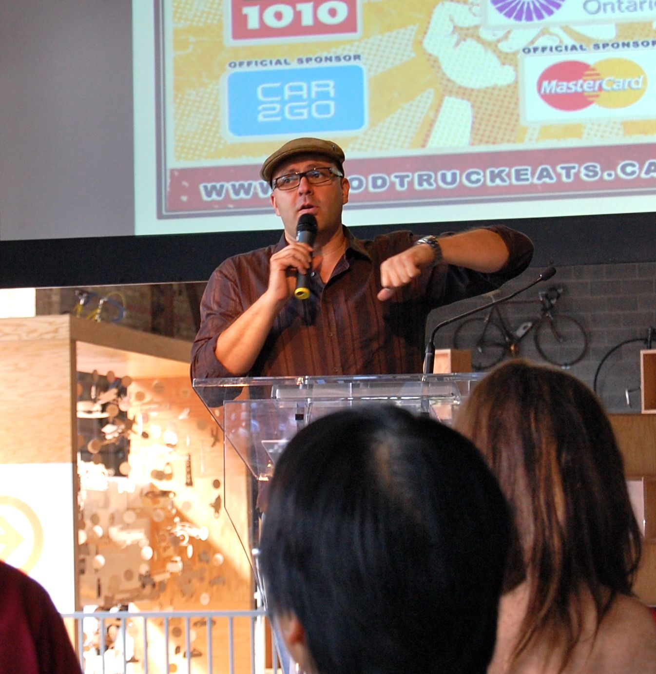 James Cunningham, of the TV show Eat St., at the AwesTRUCK 2012 show